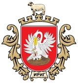 Coat of arms of irig, Vojvodina (Serbia)